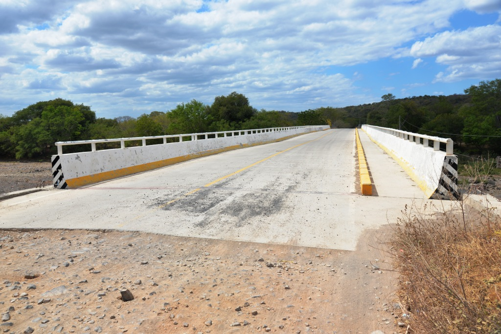 Puente del Río Sinecapa en El Tamarindo, El Jicaral, Nicaragua.